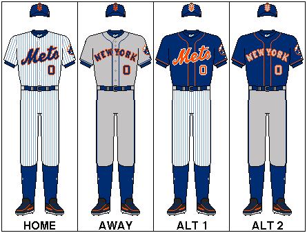 Sports uniform of the New York Mets. Trademark of MLB Properties.